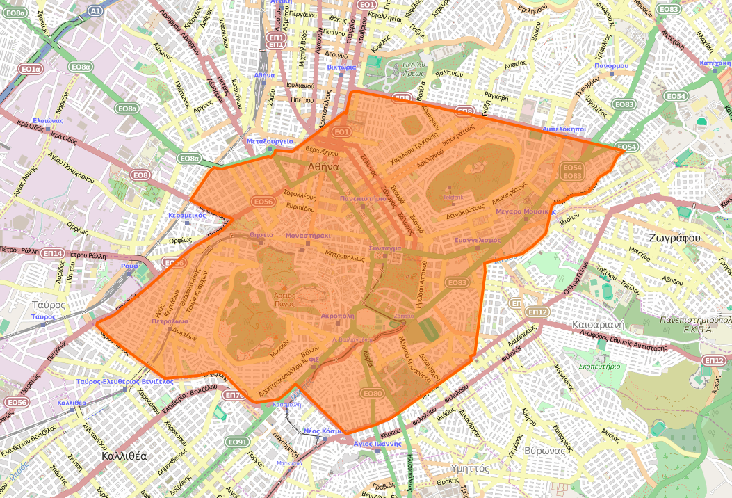 Δακτύλιος Αθηνών This map of Athens, Greece was created from OpenStreetMap project data, collected by the community. This map may be incomplete, and may contain errors. Don't rely solely on it for navigation.